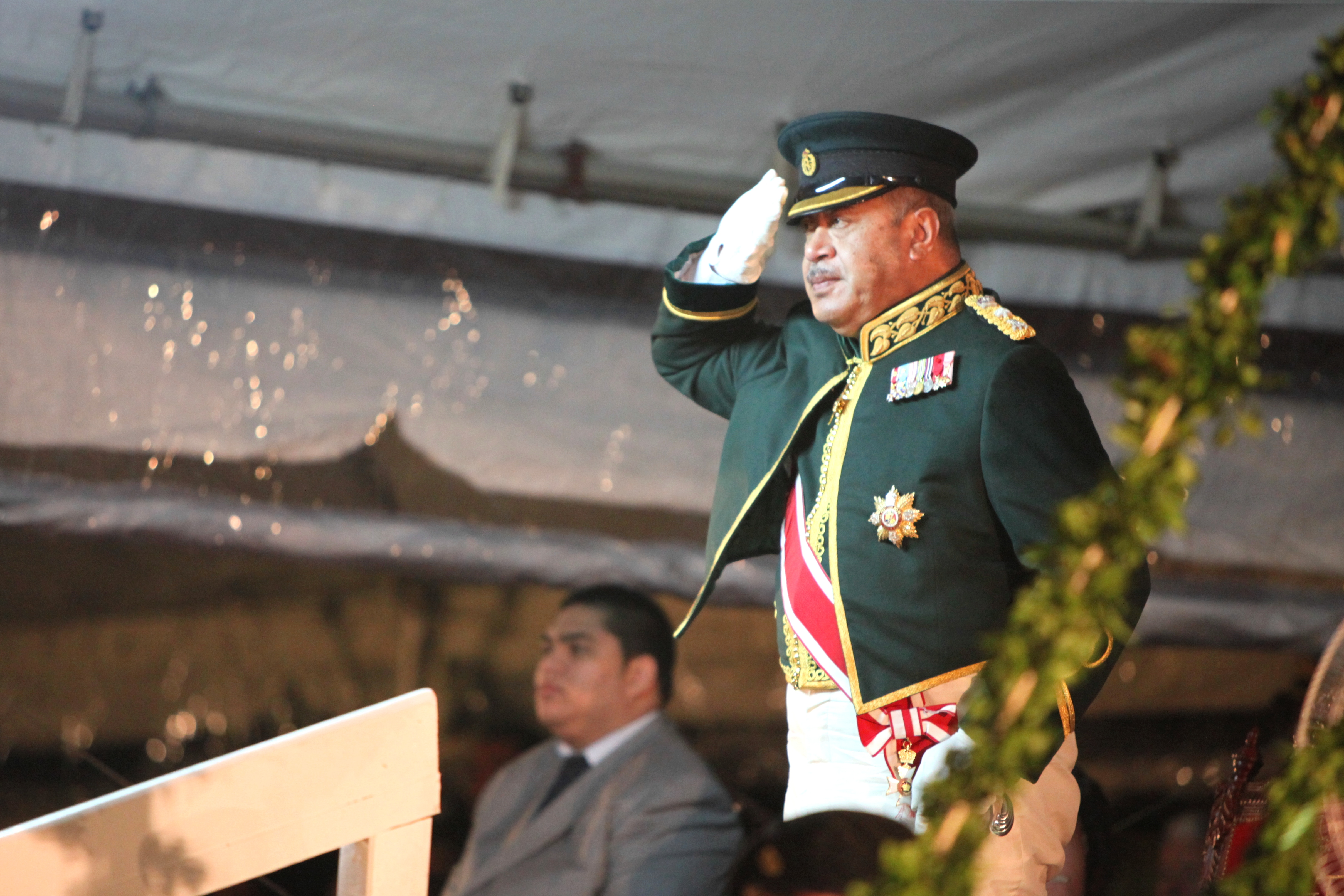 His Majesty, King George Tupou V, salutes the U.S. Marine Corps Forces, Pacific, band officer after the conclusion of the band’s performance during the Kingdom of Tonga Military Parade and Tattoo, Aug. 2. The parade and Tattoo were held in honor of His Majesty’s birthday. A Tattoo is comprised of military units – musical and operational – from different countries collaborating in an extensive exhibition of musical performances and demonstrating military capabilities.